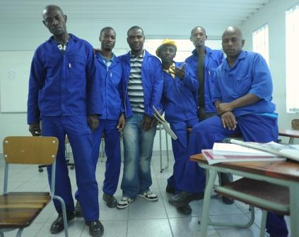 3rd year students at a vocational training center in Namibia